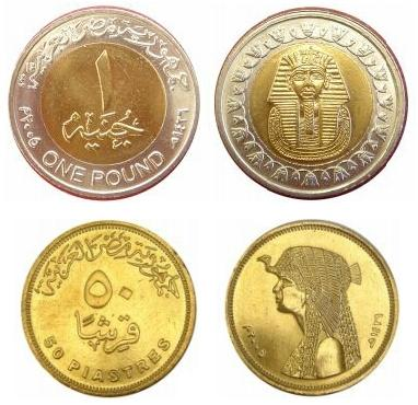 Coins